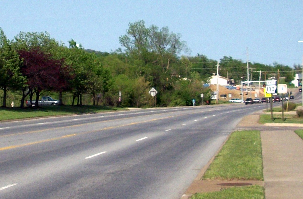 Arkansas Highway 180 eastbound after its intersection with AR 112 in Fayetteville